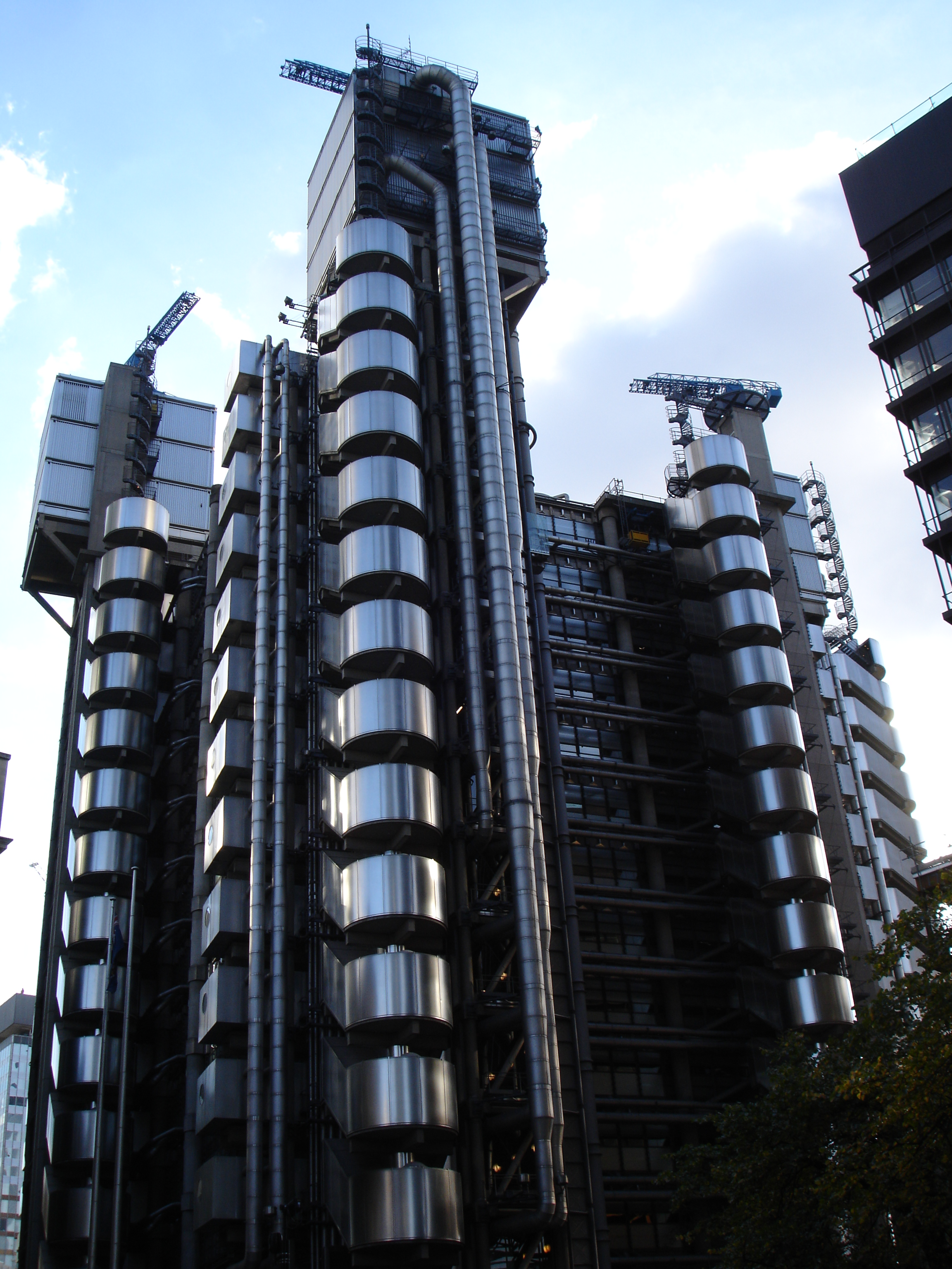 Hi Resolution photograph of the Lloyds Building, London, England